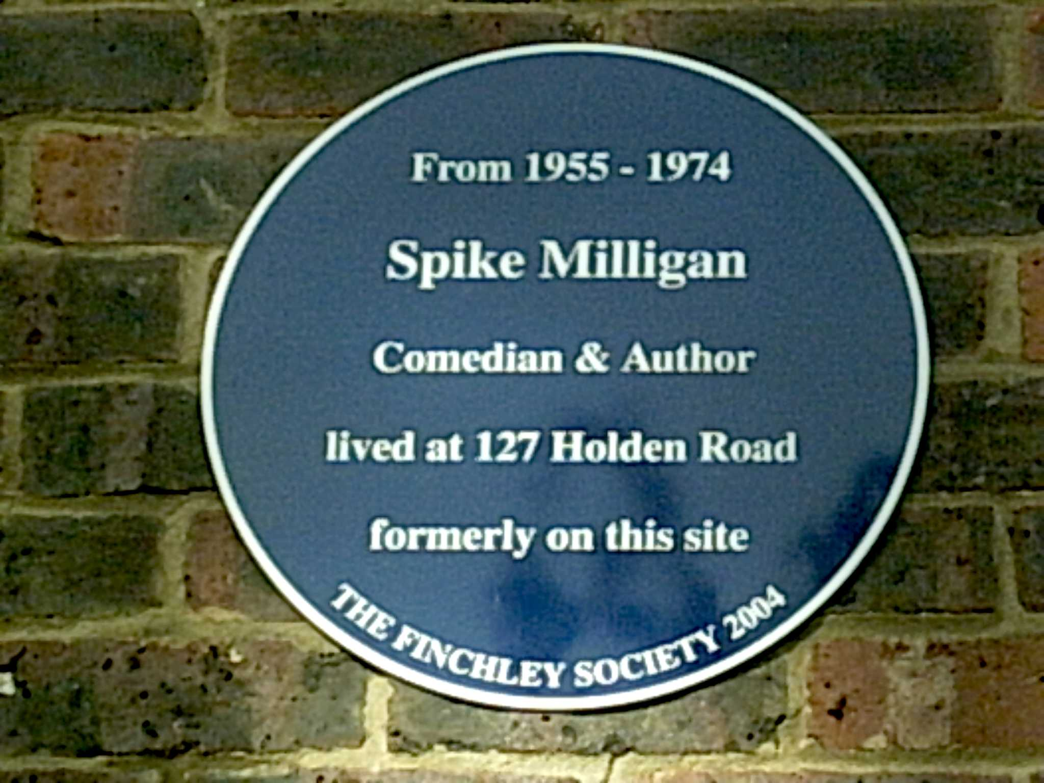 Plaque to Spike Milligan in Woodside Park. Taken about 10am, Sunday 16th September 2005. Londoneye 11:16, 16 October 2005 (UTC).